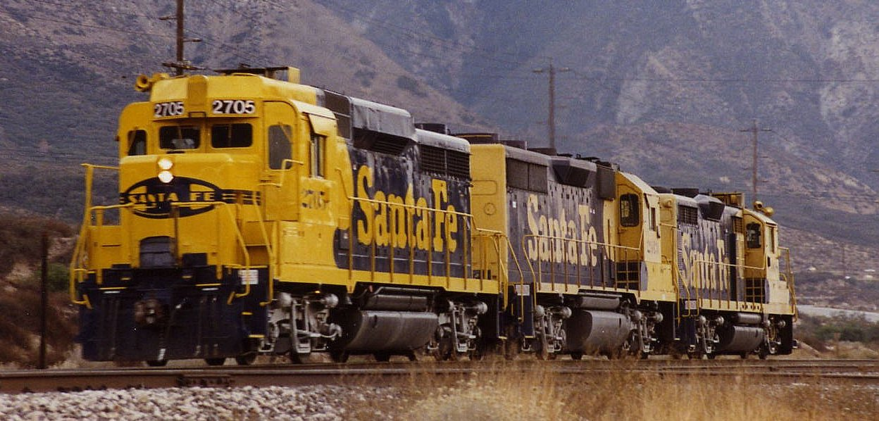 A trio of Santa Fe Railroad EMD GP units — a GP30 (in the lead), a GP35 and a GP20 — run light up Cajon Pass in California in the late 1980s. These locomotives will be helper power on a westbound train to assist in braking on the downgrade of the mountain pass. Photo by Sean Lamb (User:Slambo)